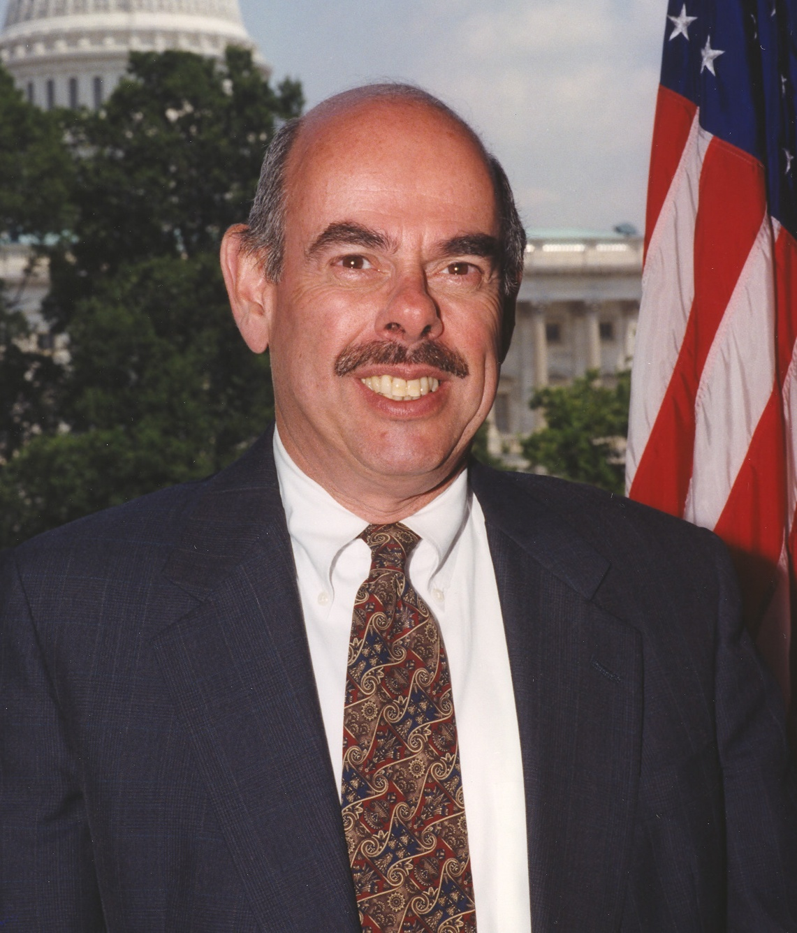 Henry Waxman, U.S. Congressman.